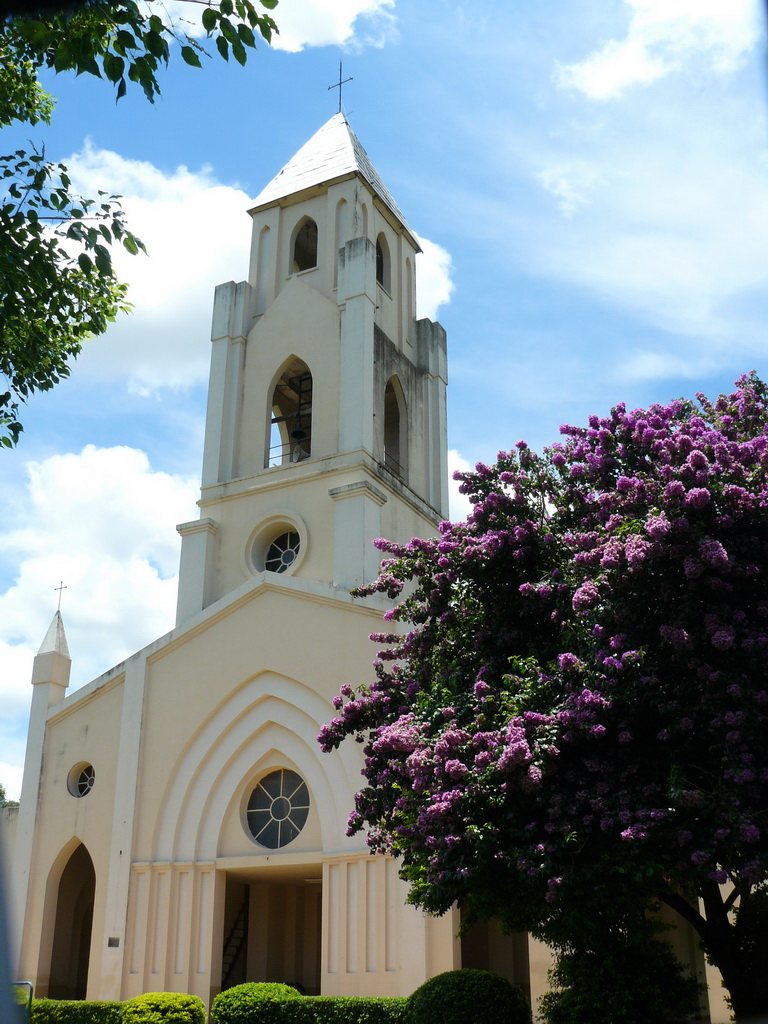 Quiindy Church (Paraguay)